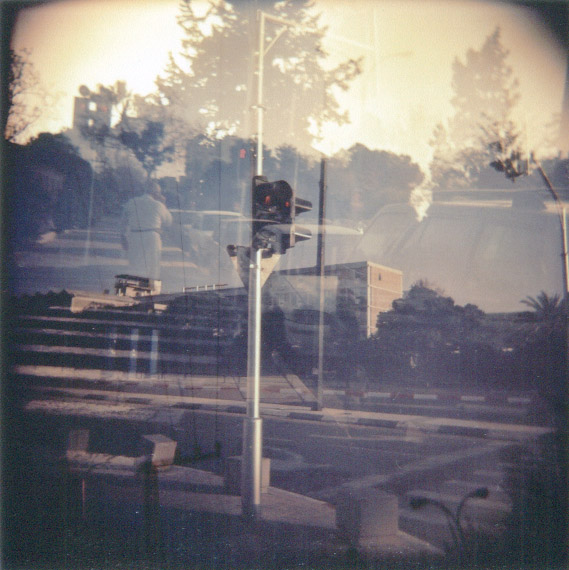 A triple exposure Holga photograph